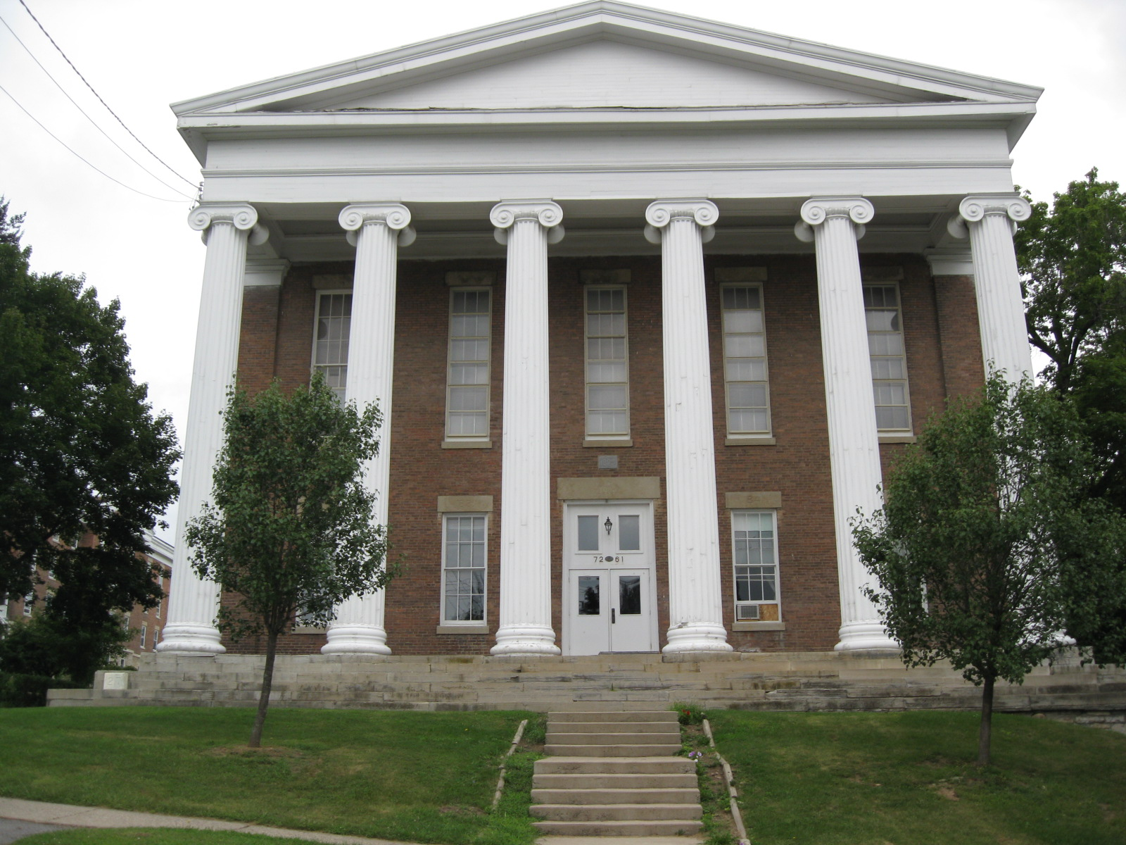 Genesee College Hall, formerly the location of the Genesee Wesleyan Seminary, now occupied by the Elim Bible Institute 082309 955